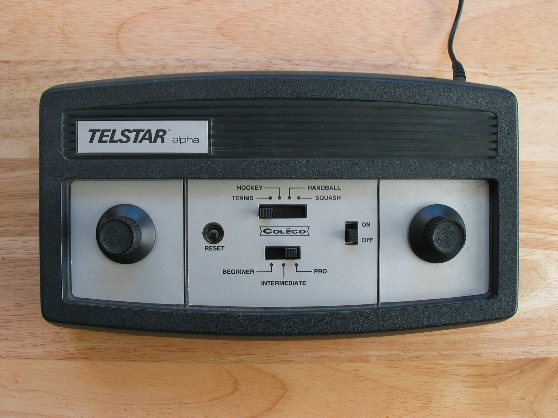 Telstar Alpha by Coleco (1977).